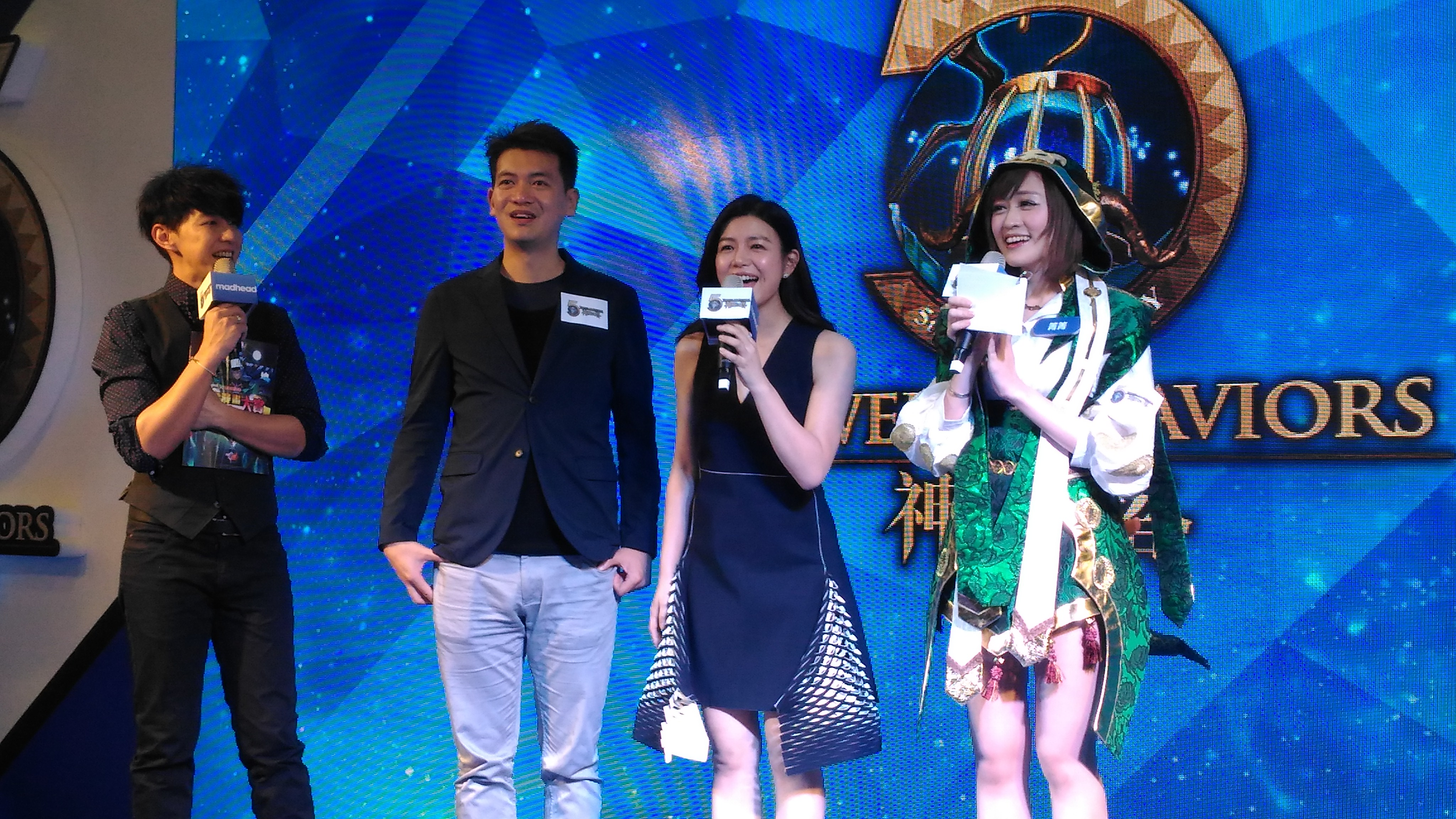 2018 Taipei Game Show: Mobile game "Tower of Saviors" 5th anniversary party. In picture from left to right: Dennis Au (Anchor in Taiwan), Terry Tsang (Founder of MadHead Corp.), Michelle Chen (Entertainer of Taiwan and spokeswoman of "Tower of Saviors"), and "Change Way" (a famous game streamer and cosplayer in Taiwan).